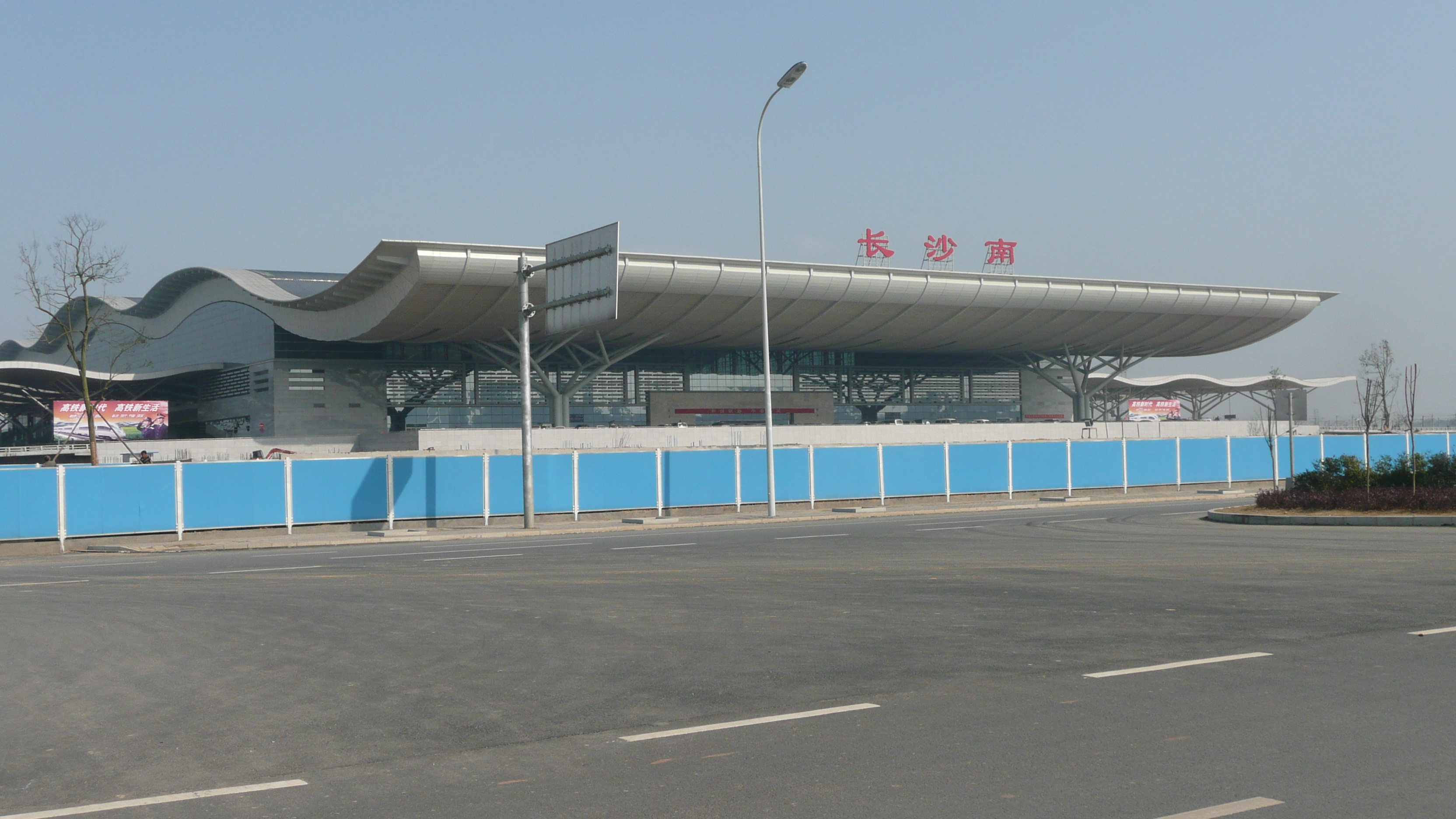 Changsha South Railway Station